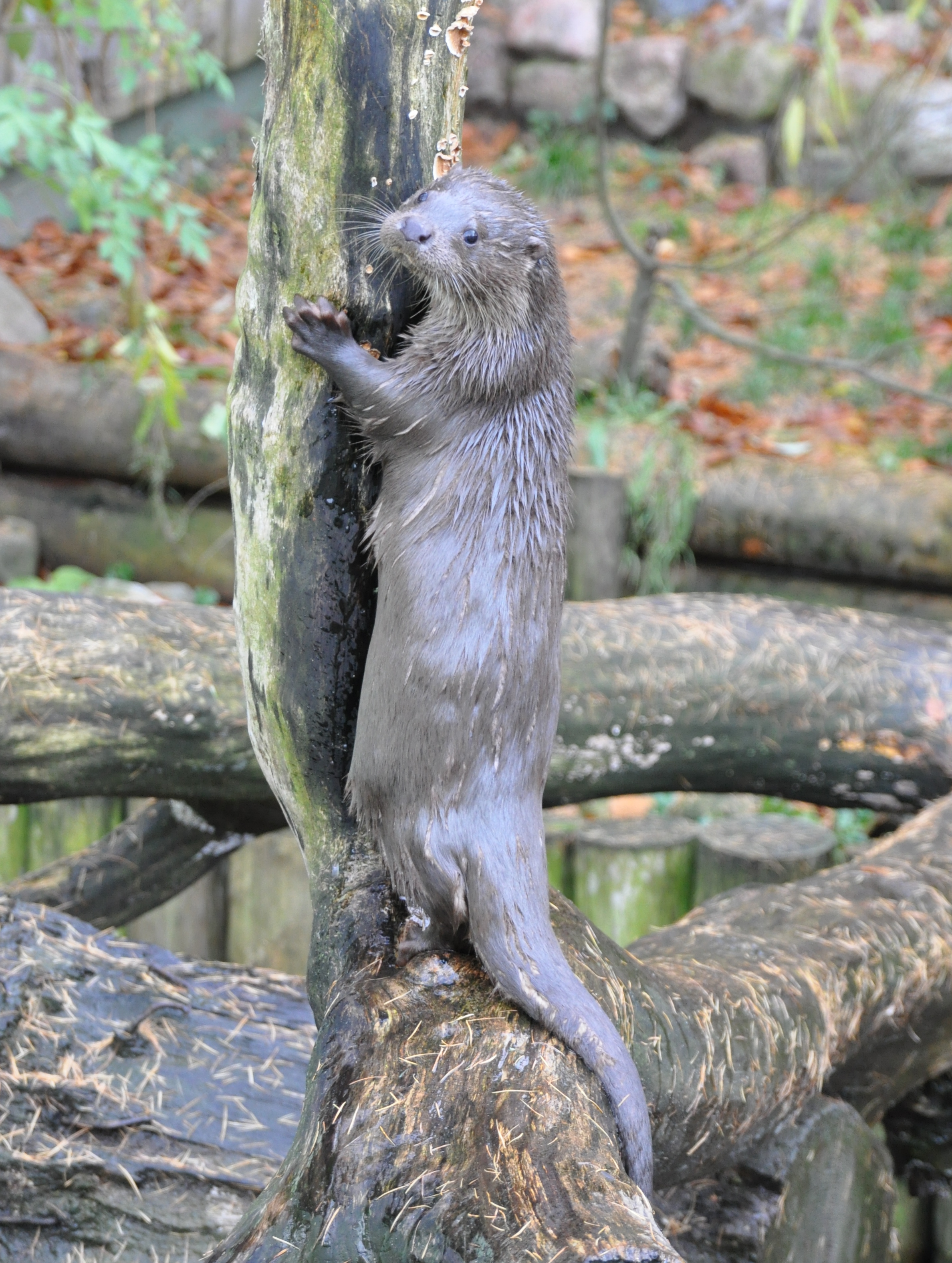 European Otter (Lutra lutra) in the Lüneburg Heath wildlife park, Germany.